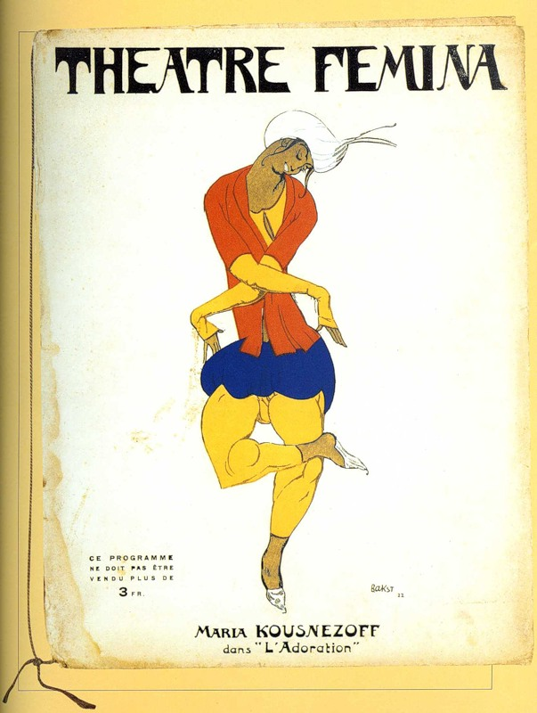 Maria_Kousnezoff_dans_L'Adoration